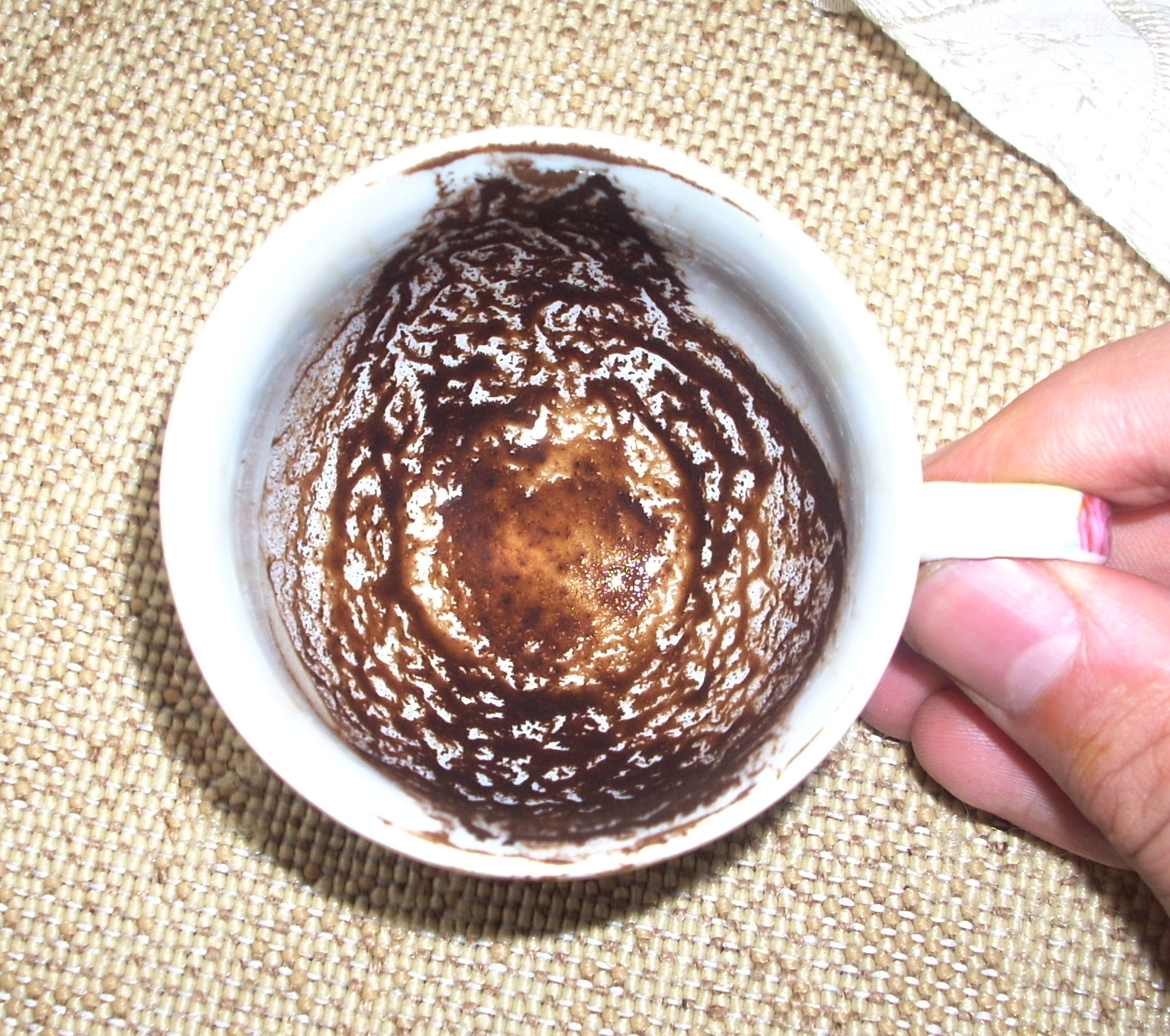 Coffee reading (Tasseography)